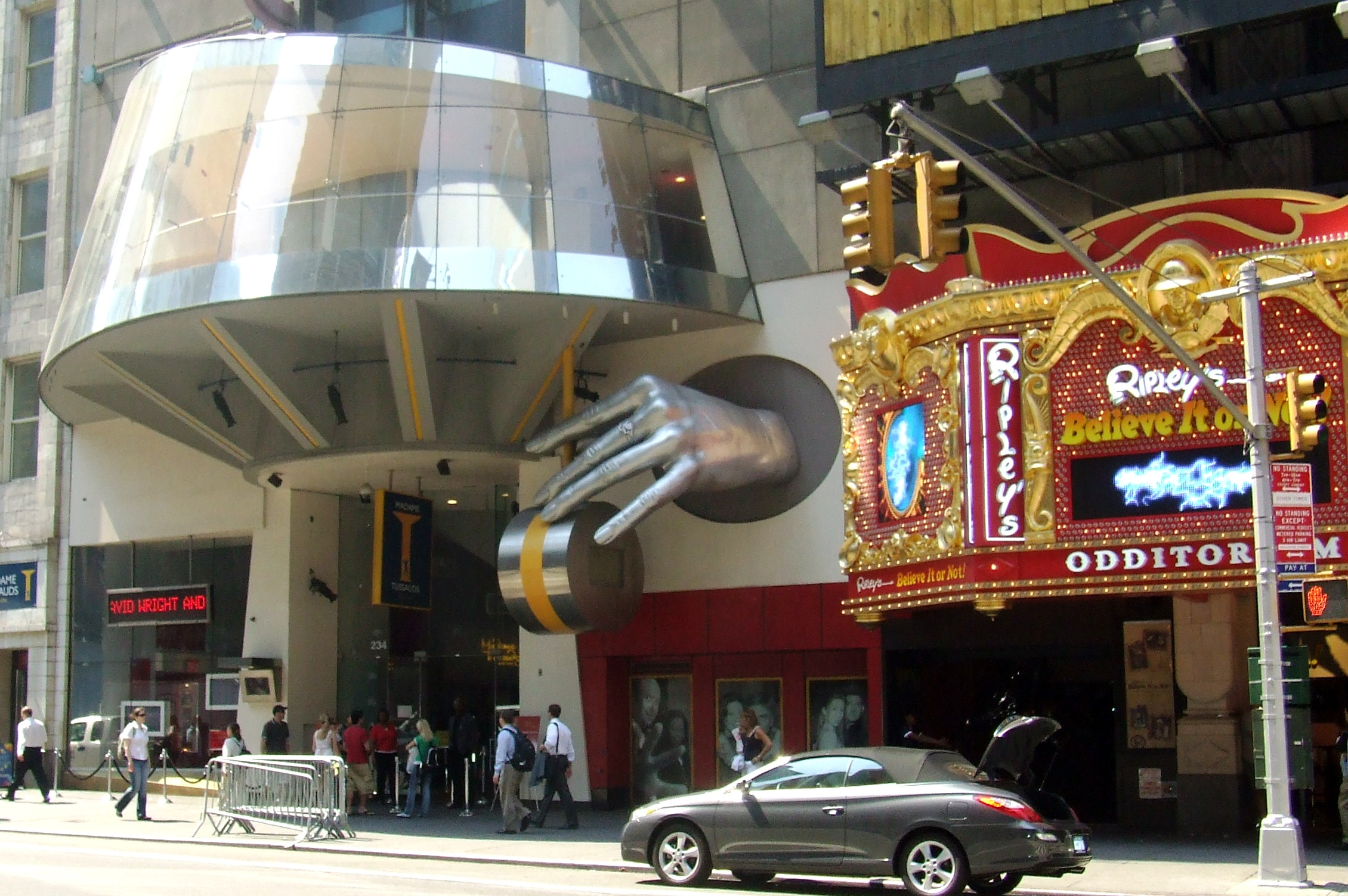 Looking south across 42nd Street, Manhattan, at Madame Tussauds / Ripley's Believe It or Not!